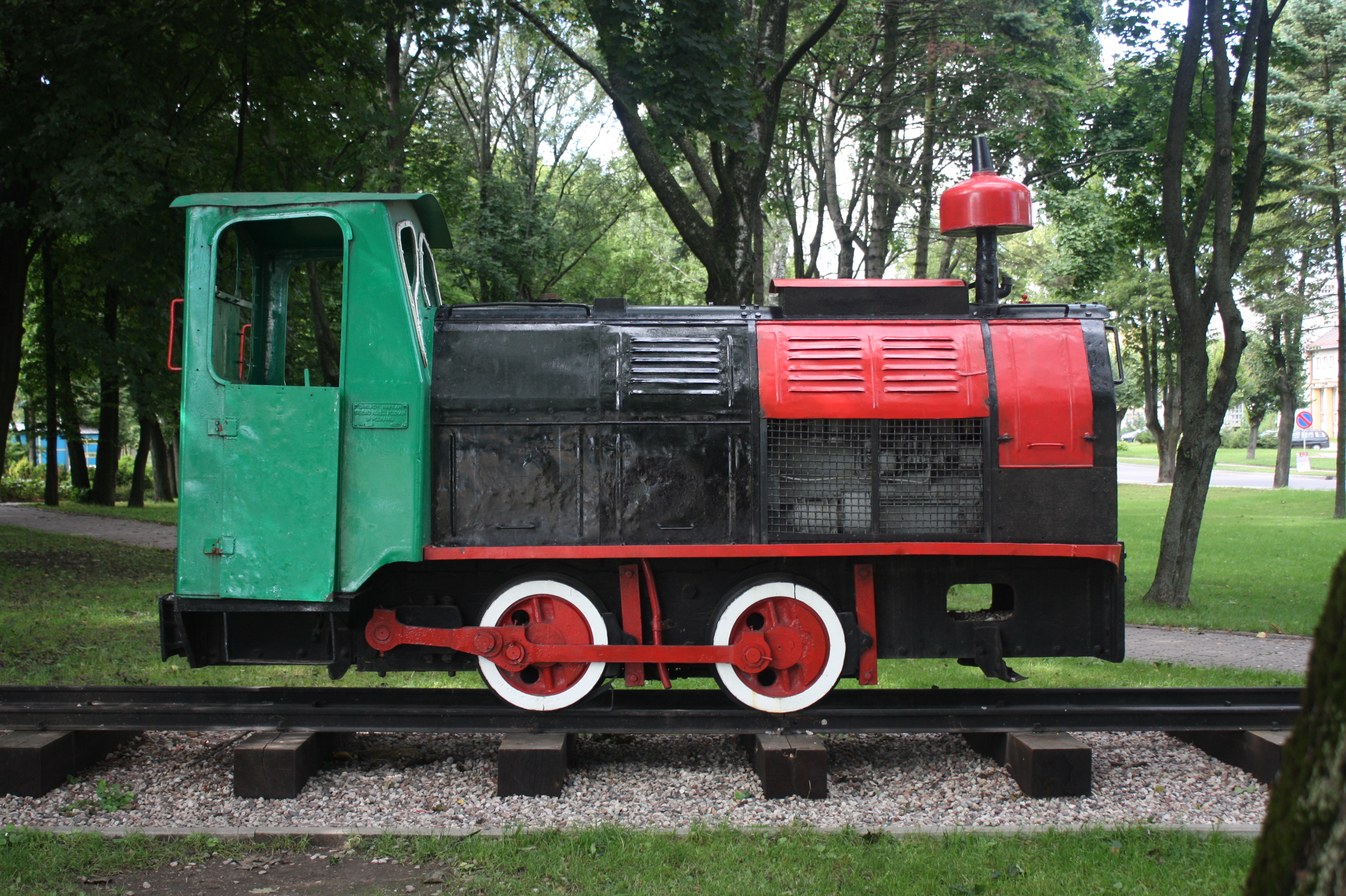 This photo of Warmian-Masurian Voivodeship was taken during Wikiexpedition 2012 set up by Wikimedia Polska Association. You can see all photographs in category Wikiekspedycja 2012. The making of this document was supported by Wikimedia Polska.